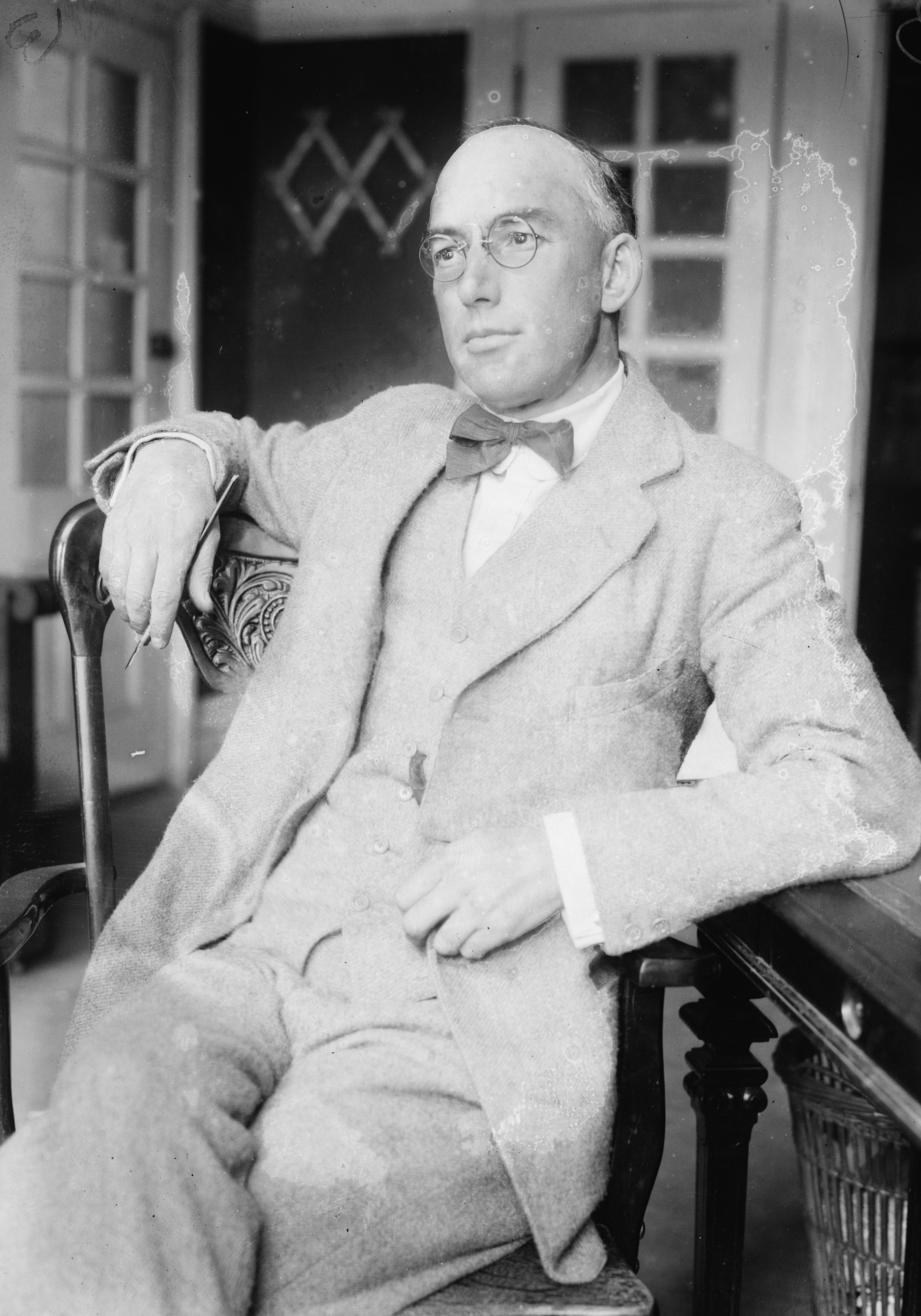 Title: Bouck White Abstract/medium: 1 negative : glass ; 5 x 7 in. or smaller.